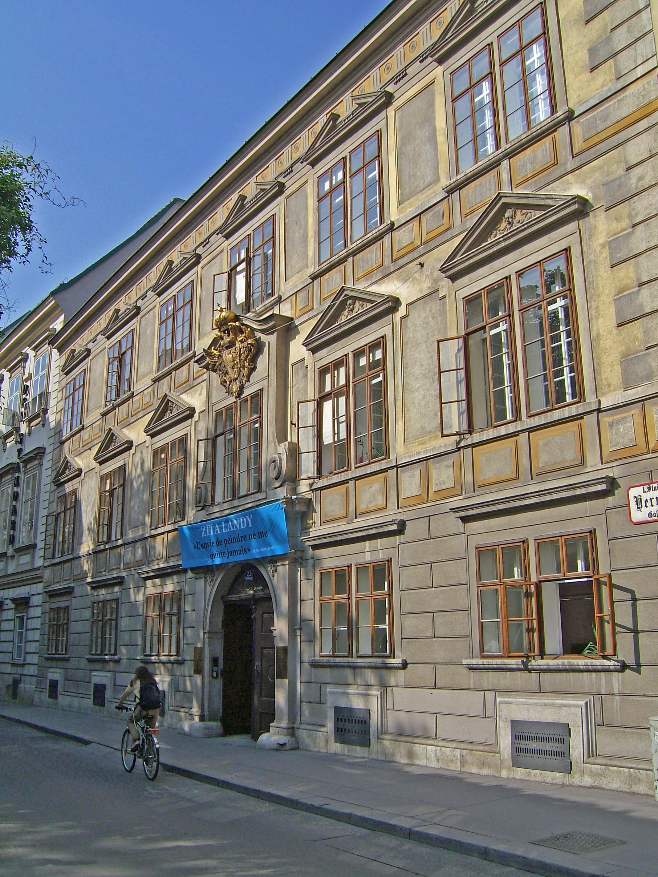 Palais Porcia in Vienna 1st district Herrengasse 23